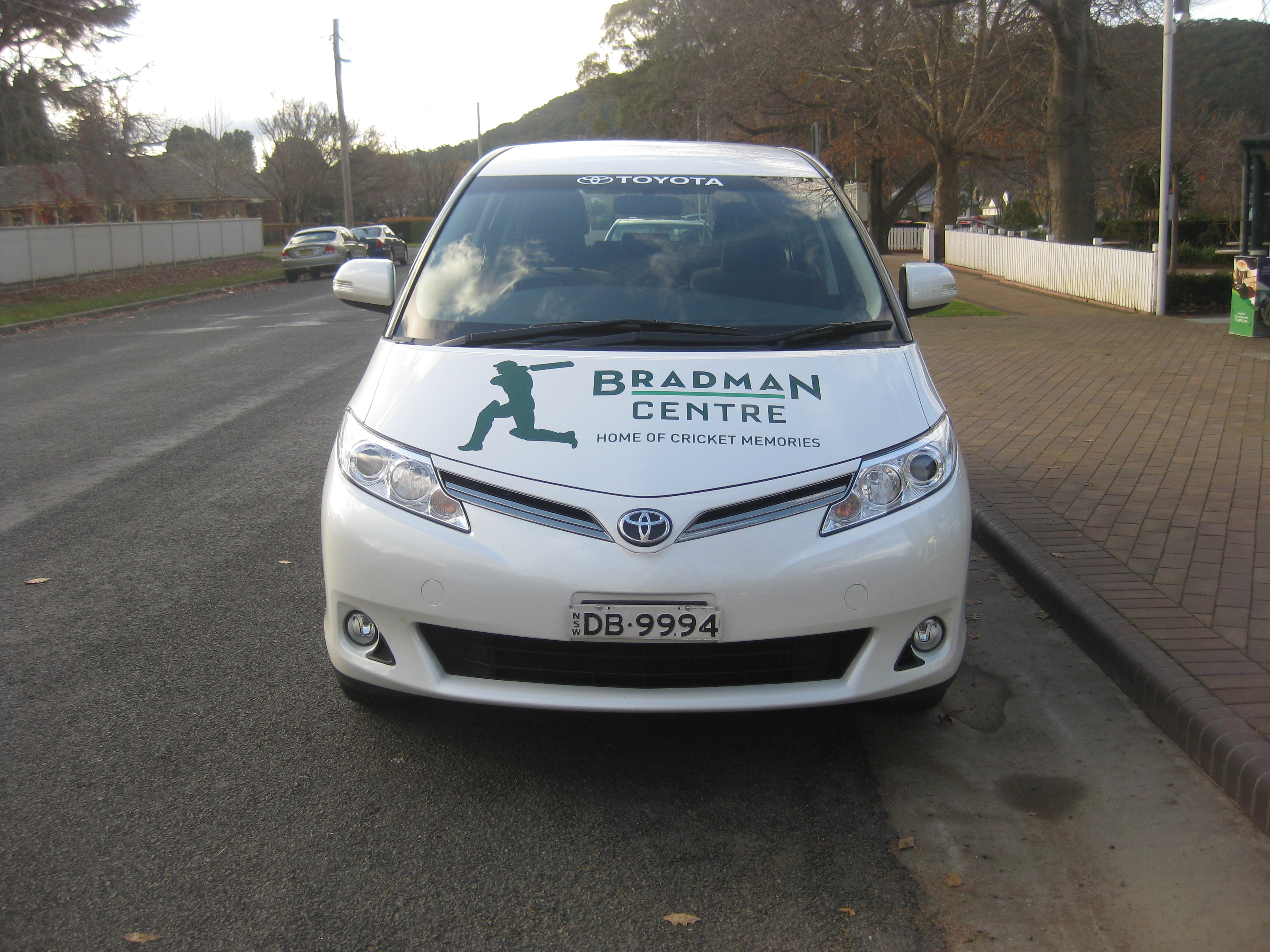 Van used at the Bradman Centre and International Cricket Hall of Fame museum in Bowral, New South Wales, photographed outside the Museum and bearing the iconic 99.94 registration plate